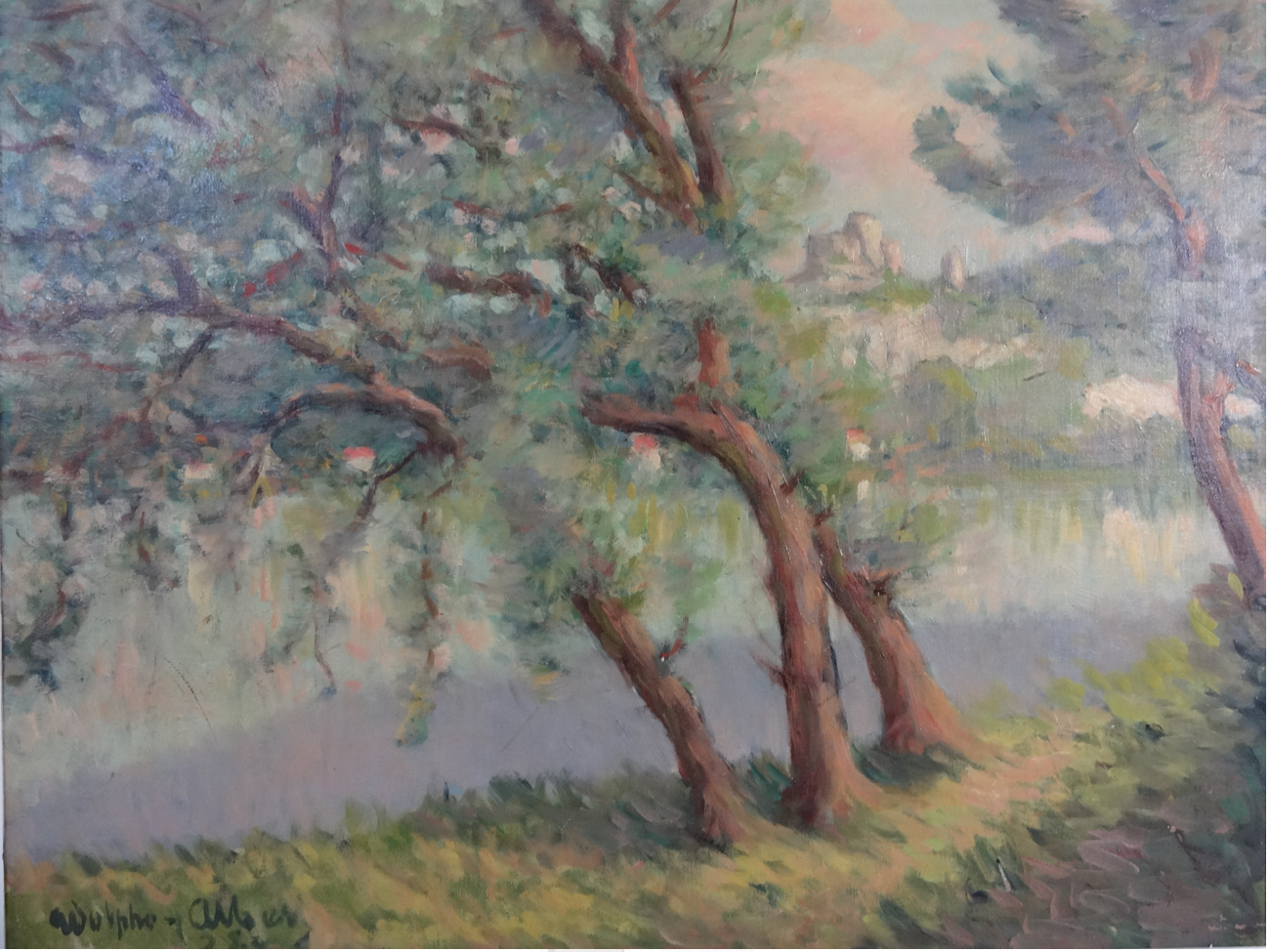 Vue de Château-Gaillard, oil on canvas, signed.